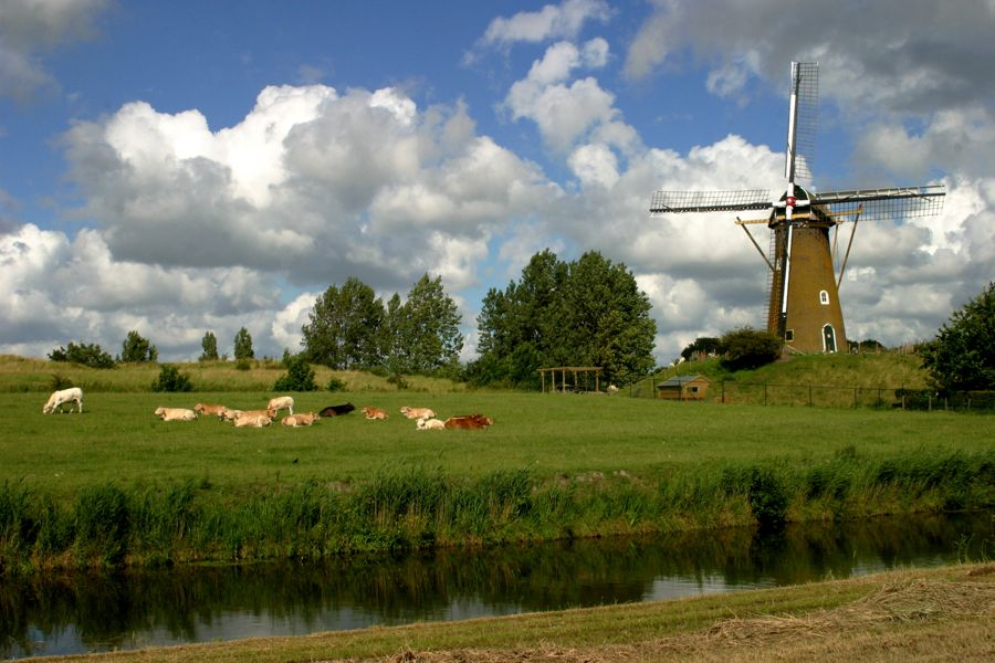 Molen De Eersteling, Hoofddorp